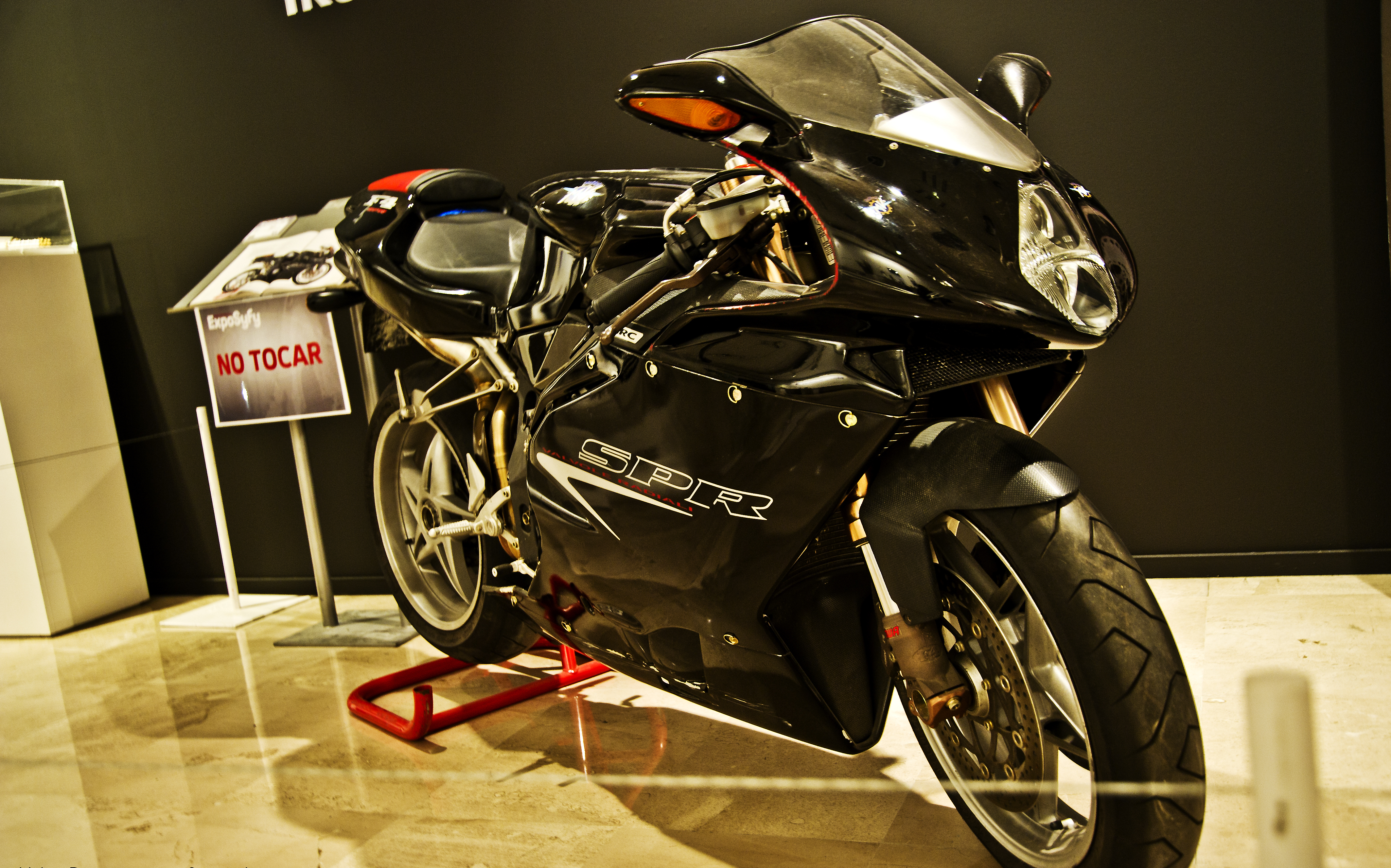 One of the three original MV Agusta F4 750SPR driven by Del Spooner (Will Smith) in the 2004 film I, Robot displayed at ExpoSYFY, San Sebastián, Spain. Specially modified for the movie Designed by Massimo Tamburini Built by MV Agusta Motor S.p.A., Varese, Italy Most powerful and fastest of the F4 range in 2004 750cc four-cylinder 16-valve liquid-cooled MV Agusta motor, 146 horsepower Thermoplastic and carbon fiber fairing Courtesy of Cagiva USA source source 2